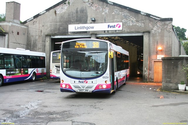 First Edinburgh 69254 (SK07 JVN), a Volvo B7RLE/Wright Eclipse Urban, in Linlithgow bus depot. The depot is located to the south side of the High Street opposite Linlithgow Cross. The photographer has drawn his bus forward for the shot prior to a Sunday morning shift on 38s - his part time "hobby" job.